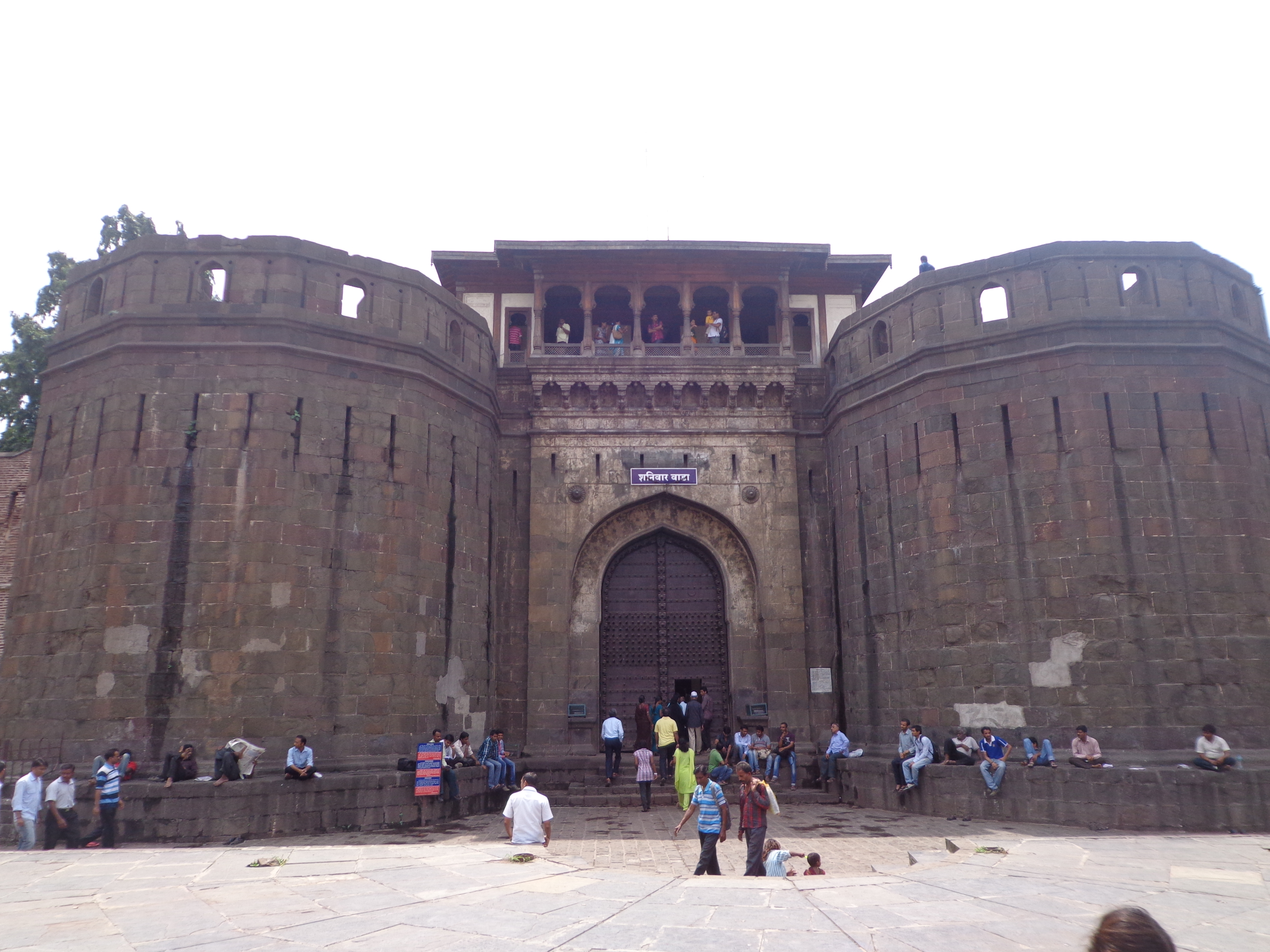 Shaniwarwada frontview